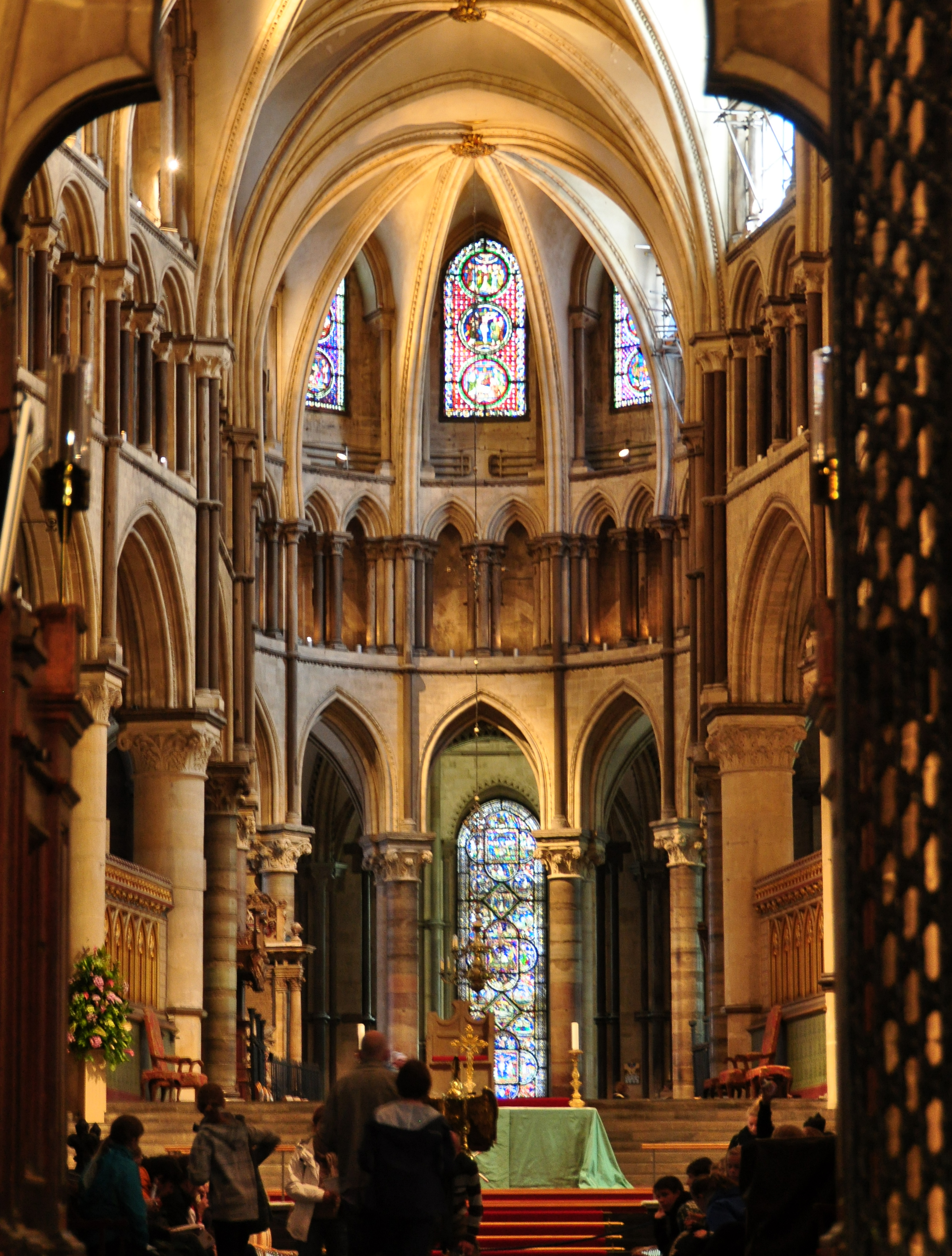 The apse of Canterbury Cathedral.